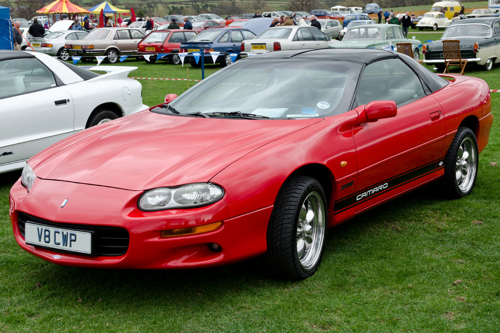 St Asaph Classic Car Show 21/04/2013